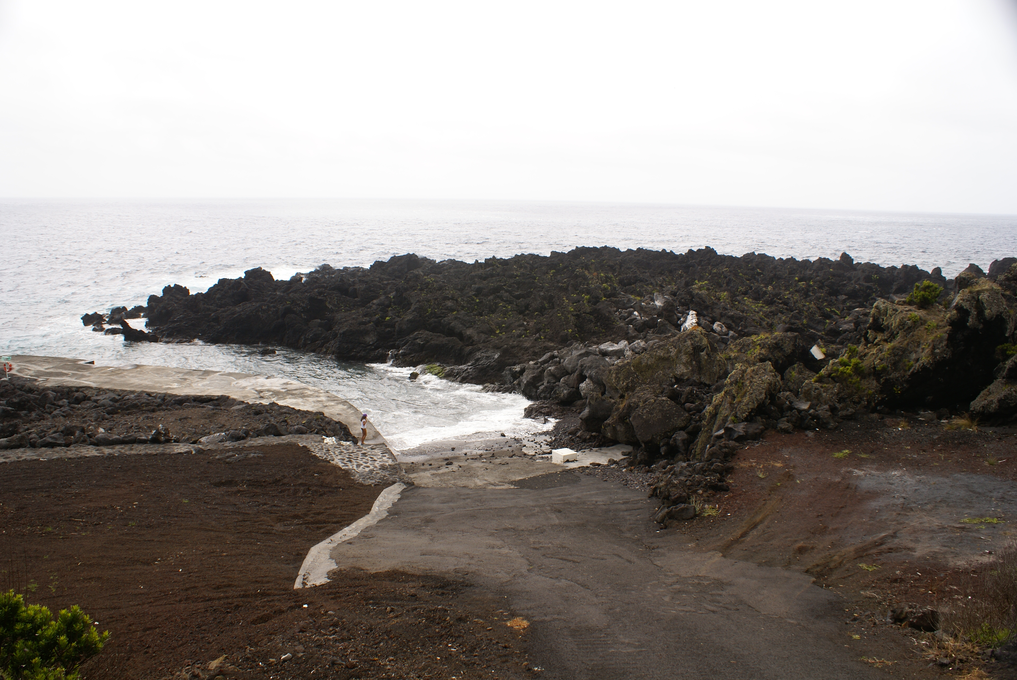 Zona de Lazer do Portinho, portinho, vista parcial, Calheta de Nesquim, concelho das Lajes do Pico, ilha do Pico, Açores, Portugal